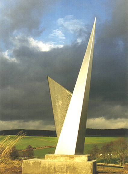 Aufbruch - Large sculpture in stainless steel and marble/granite, height: 4 m